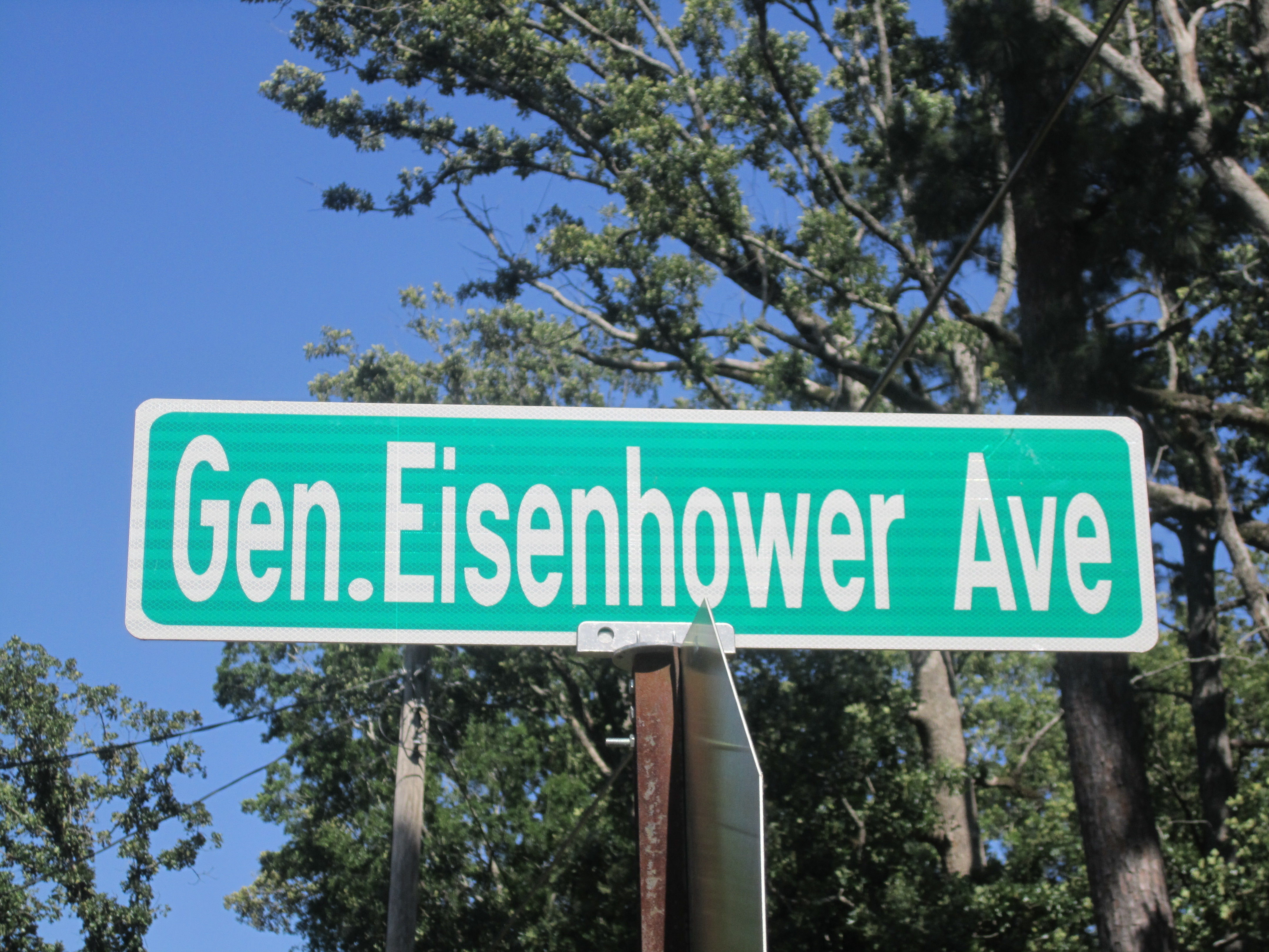 I took photo of General Eisenhower street sign in Shreveport, LA, with Canon camera.